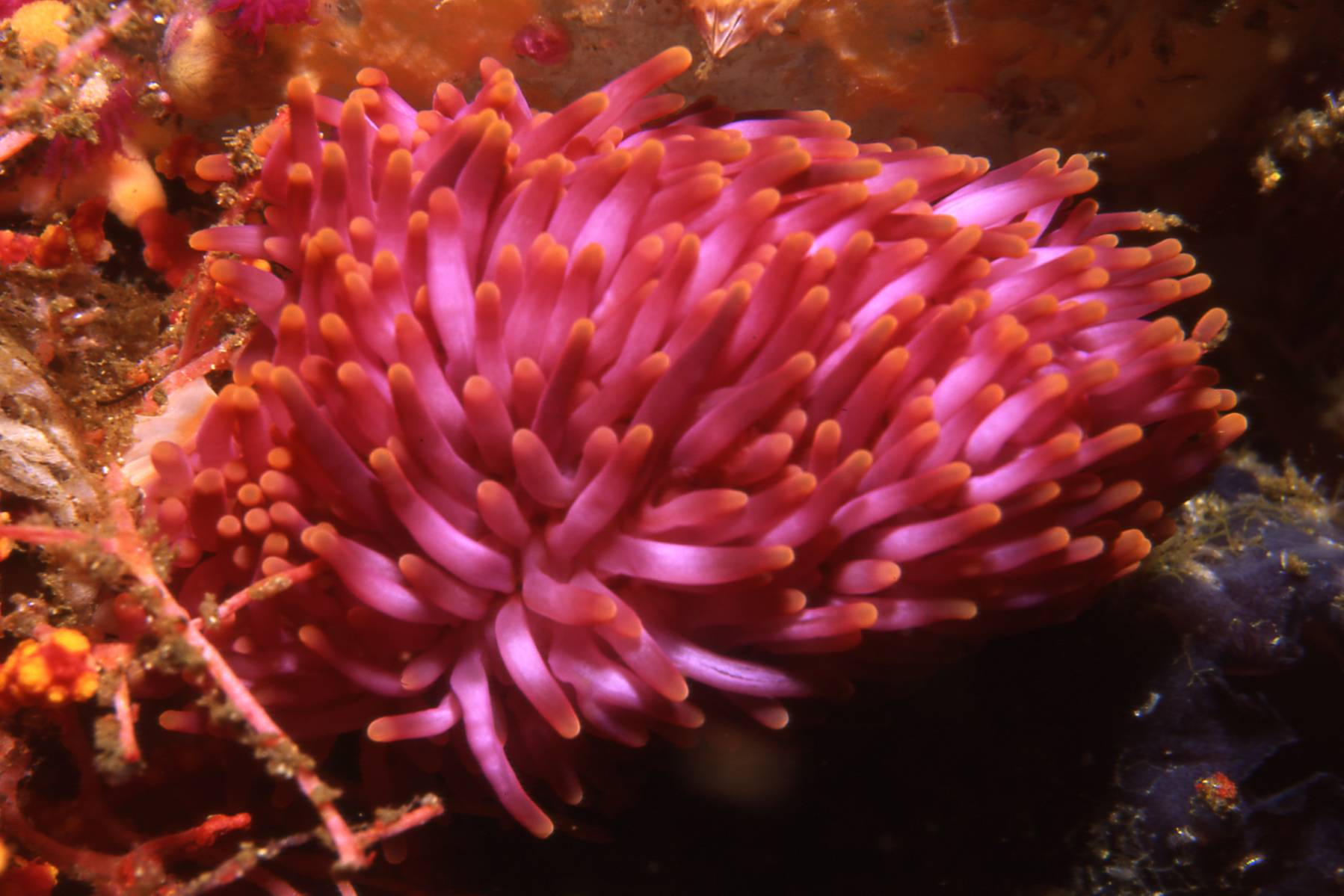 a close up photograph of a walking anemone, Preactis millardae, taken in False Bay off Cape Town using a Nikonos V camera